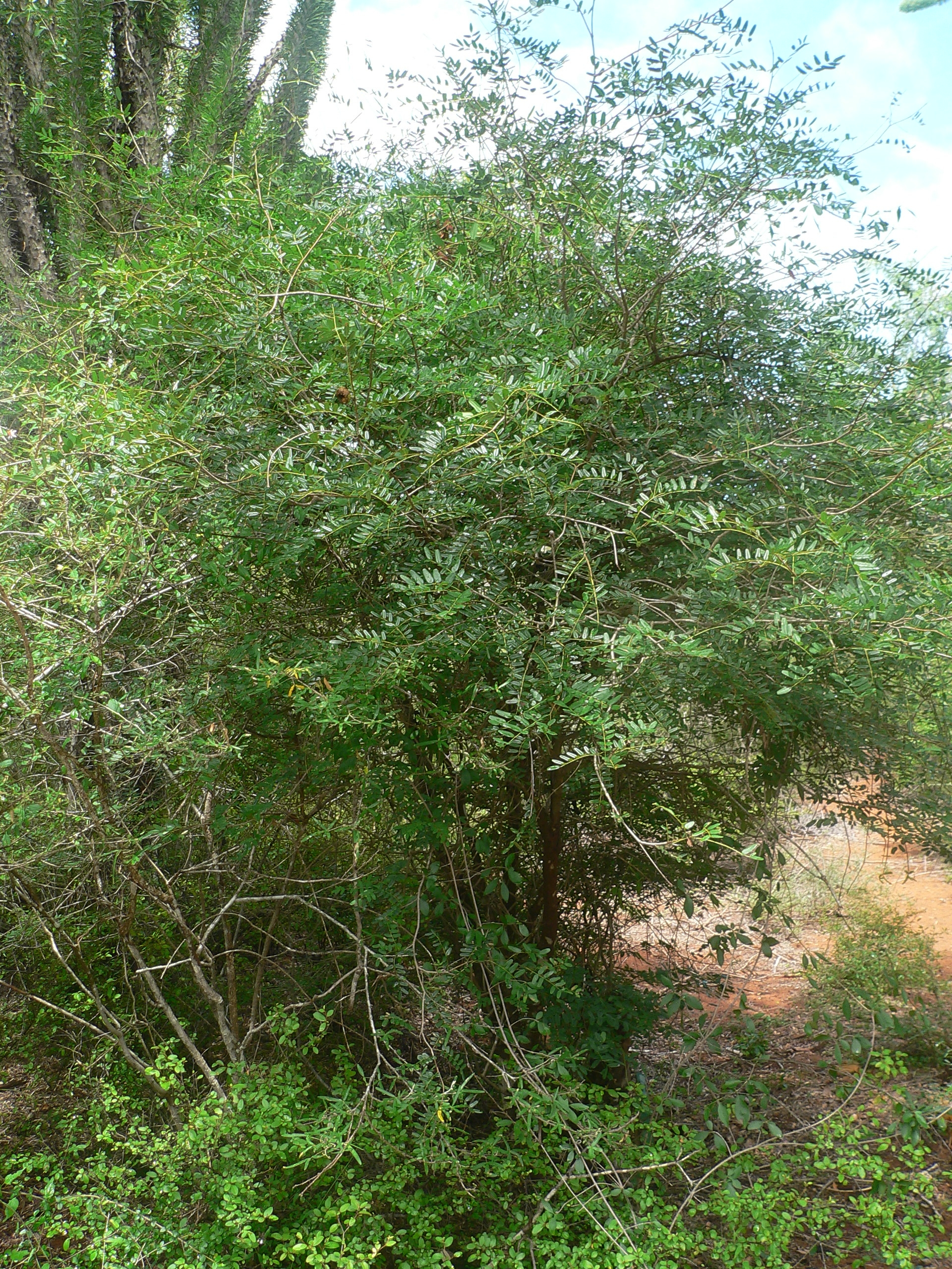 Cordyla madagascariensis (Fabaceae) from spiny forest close to Mangily, western Madagascar